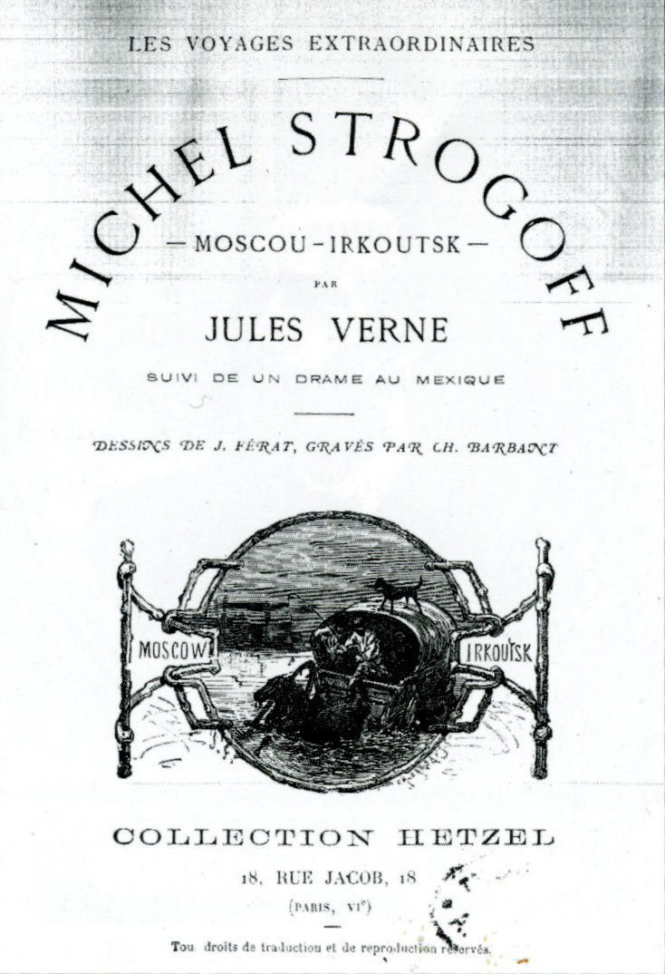 Michel Strogoff by Jules Verne, 1st edition, 1876